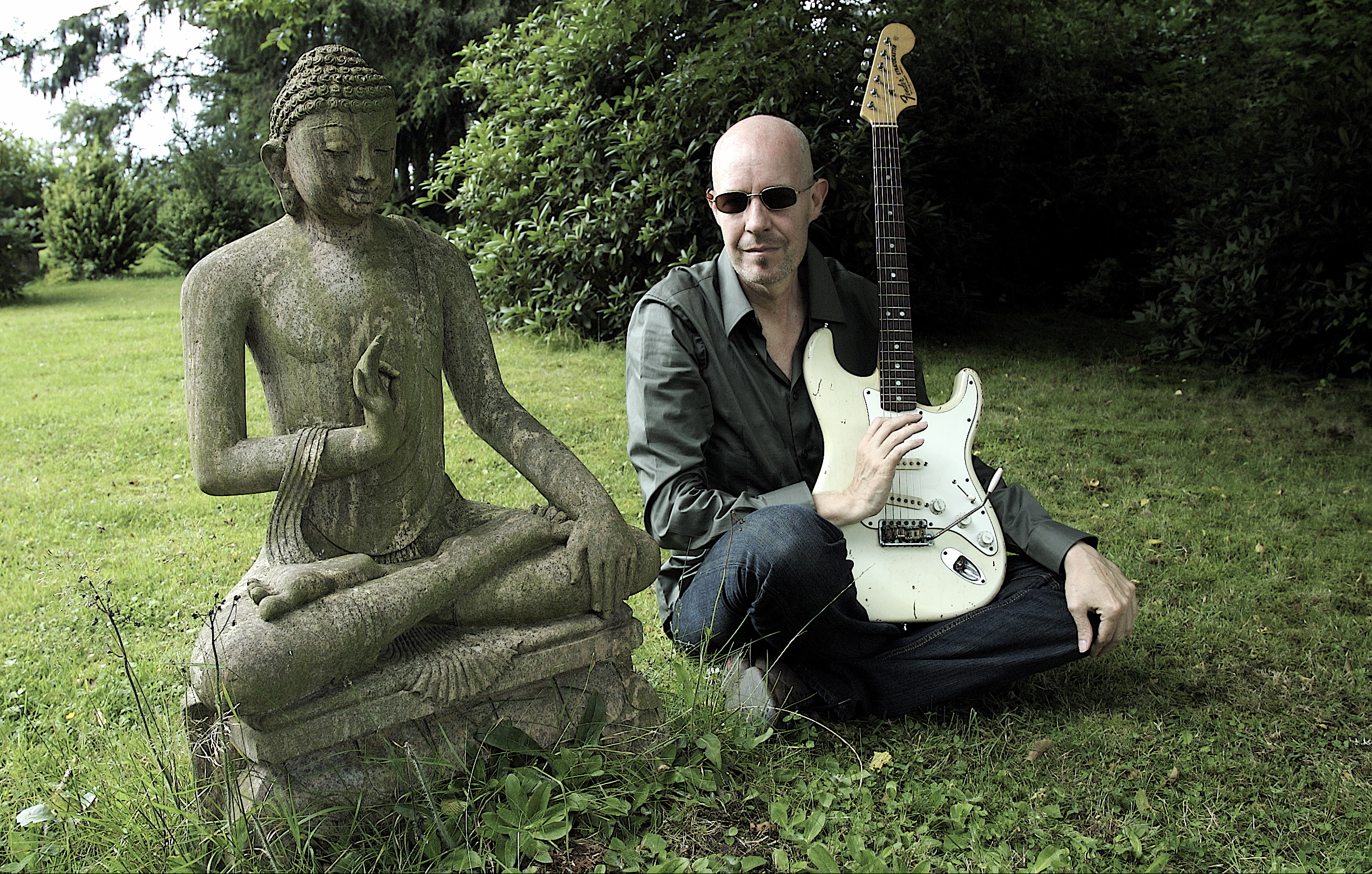 Portrait of Axel Manrico Heilhecker